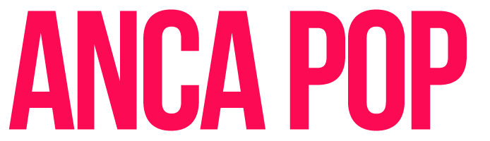 Logo - Anca Pop